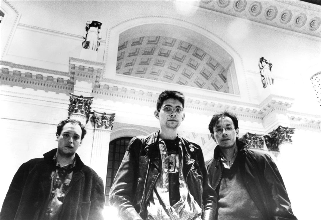 American rock band Big Black at Chicago's Union Station in a 1986 promo photo for Touch and Go Records. Left to right: Dave Riley, Steve Albini, and Santiago Durango.